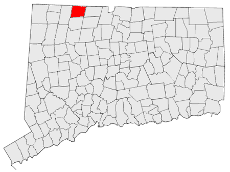 Locator map for Colebrook, Connecticut